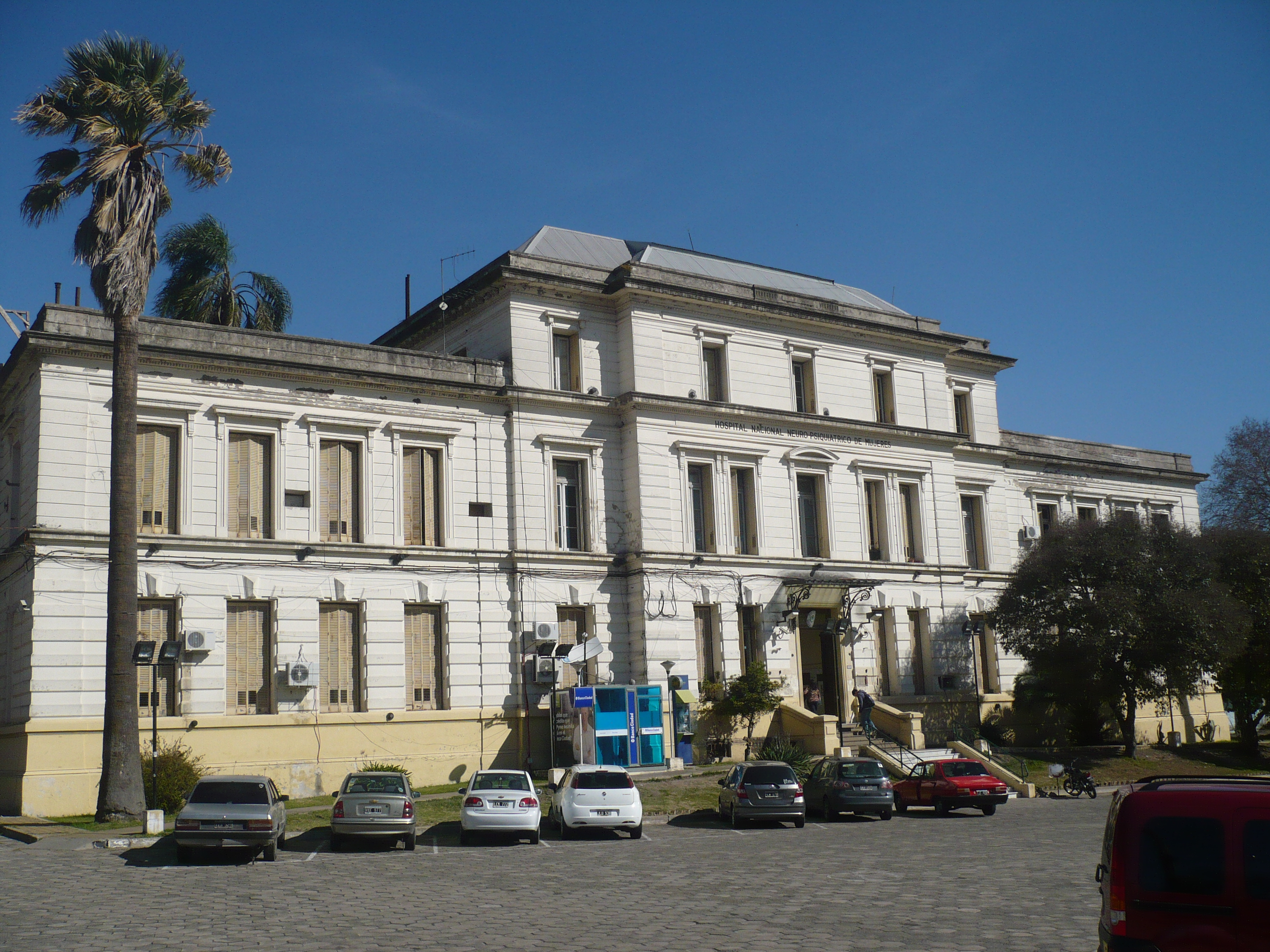 Moyano Hospital - administrative building. Brandsen 2570, Barracas, Buenos Aires.